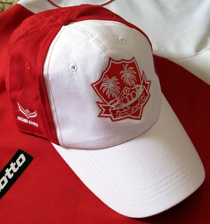 Picture of a Dhofar Grand Sport-provided cap. (c) 2010 Salalah4life